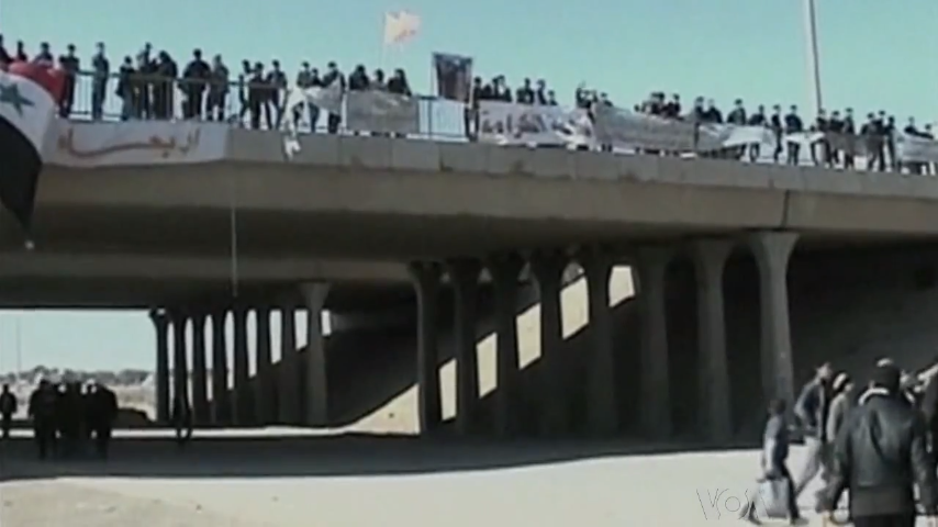 Iraqi Sunni demonstrators protesting against the Maliki led government.